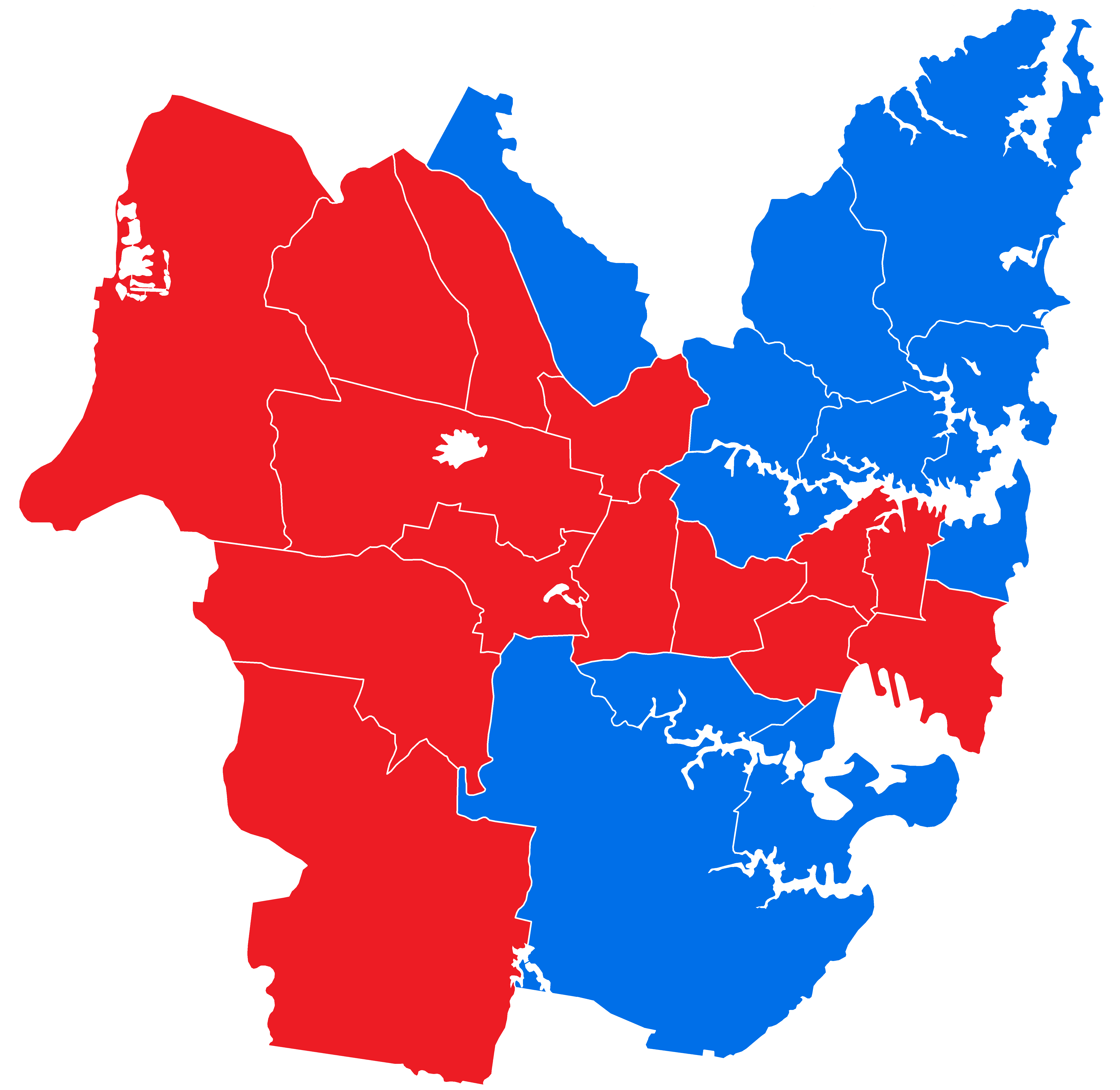 Results map of the Australian federal election, 2016 in Sydney, showing federal electorates decorated in the color representing a win by a particular party.